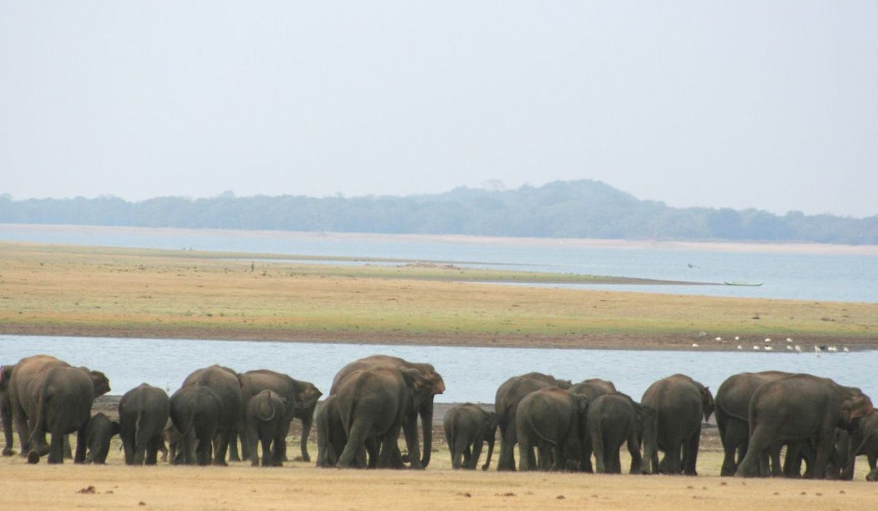 Elephant gathering in Minneriya is one of the must see things in the bucket list of those planning on visiting Sri Lanka for safari, as the country has the largest elephant gathering in the world.